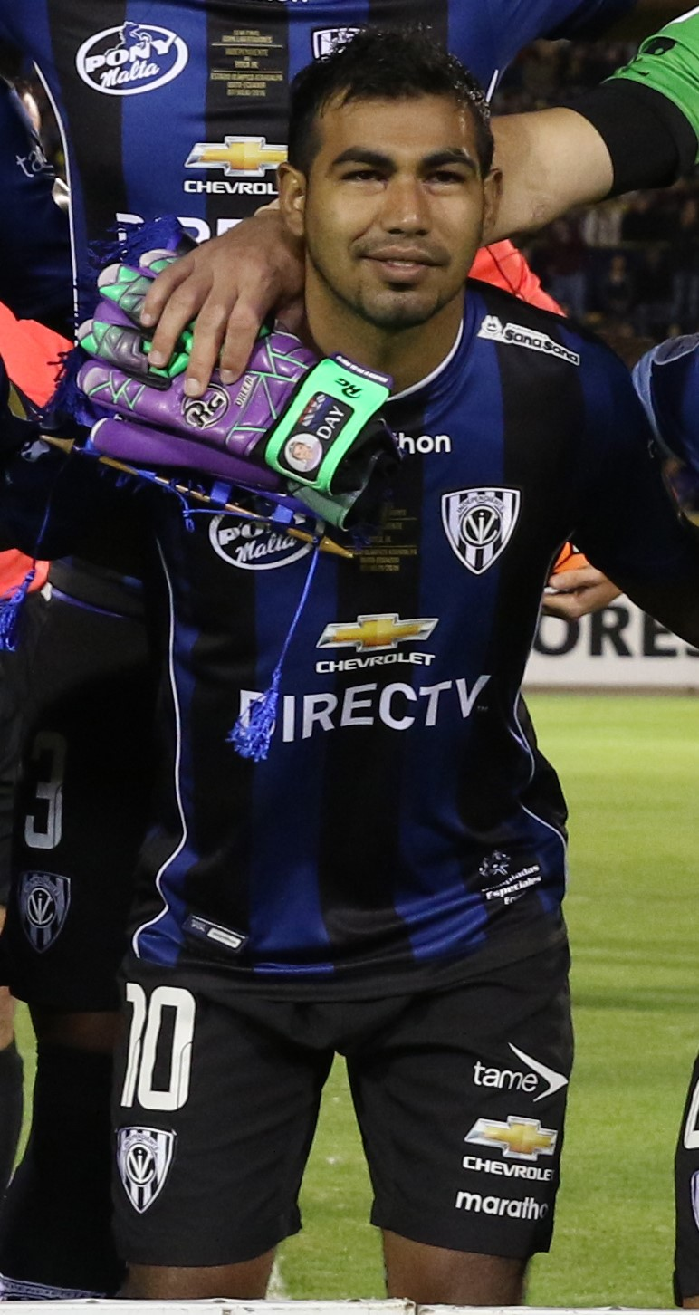 Junior Sornoza